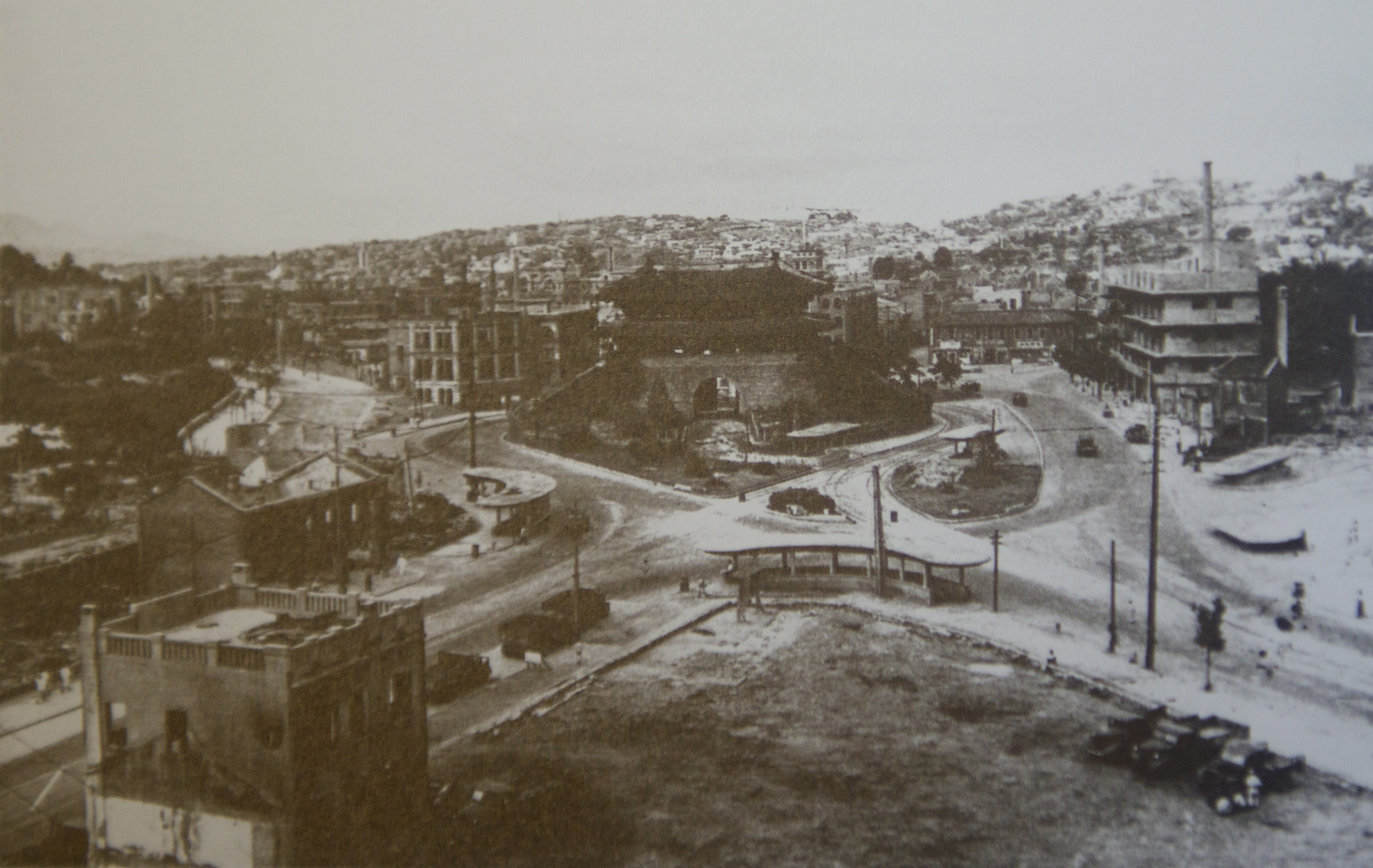 Scene of Seoul after the recapture of Seoul.